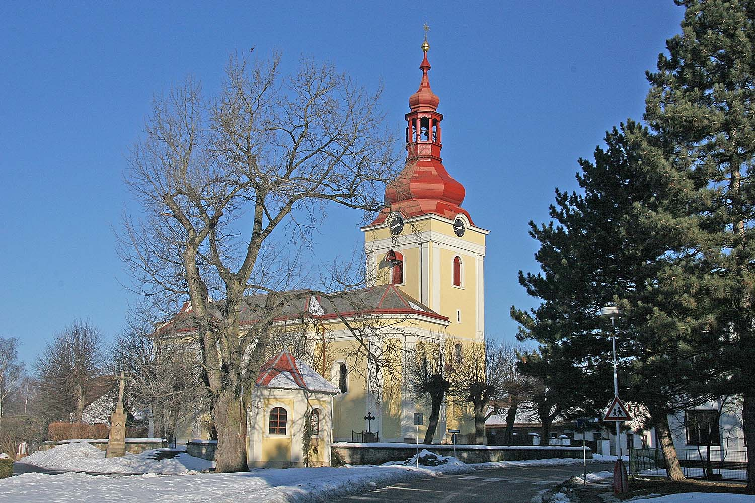 Church of SS Peter and Paul in Milovice u Hořic, Jičín District, Czech Republic autor: Prazak date: 20. 2. 2006